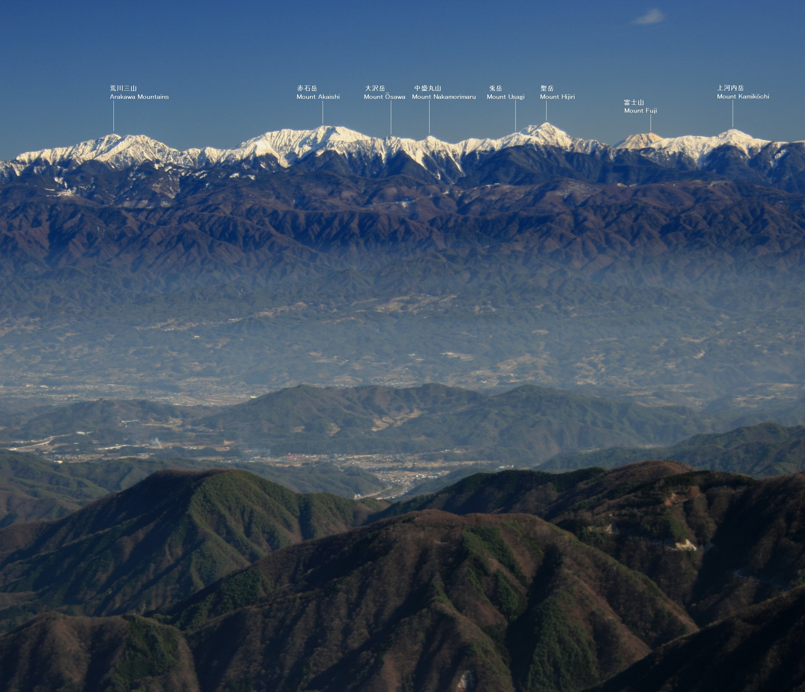 Akaishi Mountains and Mount Fuji from Mount Ena, with note.